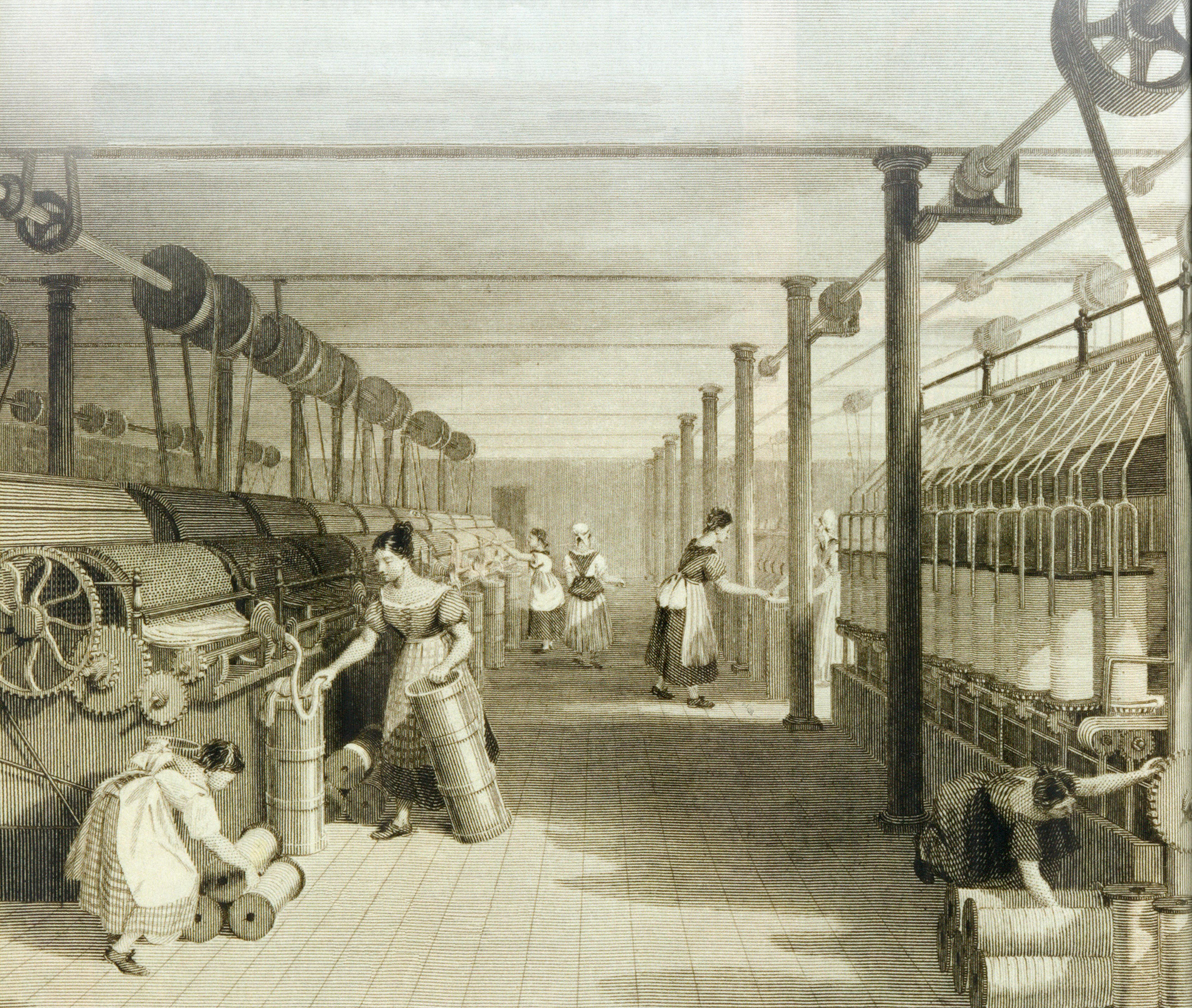 Cotton mill in the 1830s.